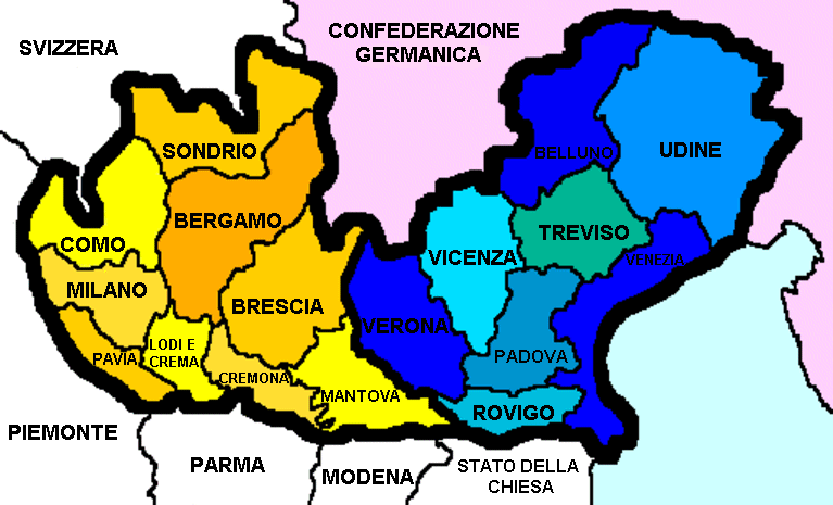 Provinces of the Kingdom of Lombardy-Venetia.